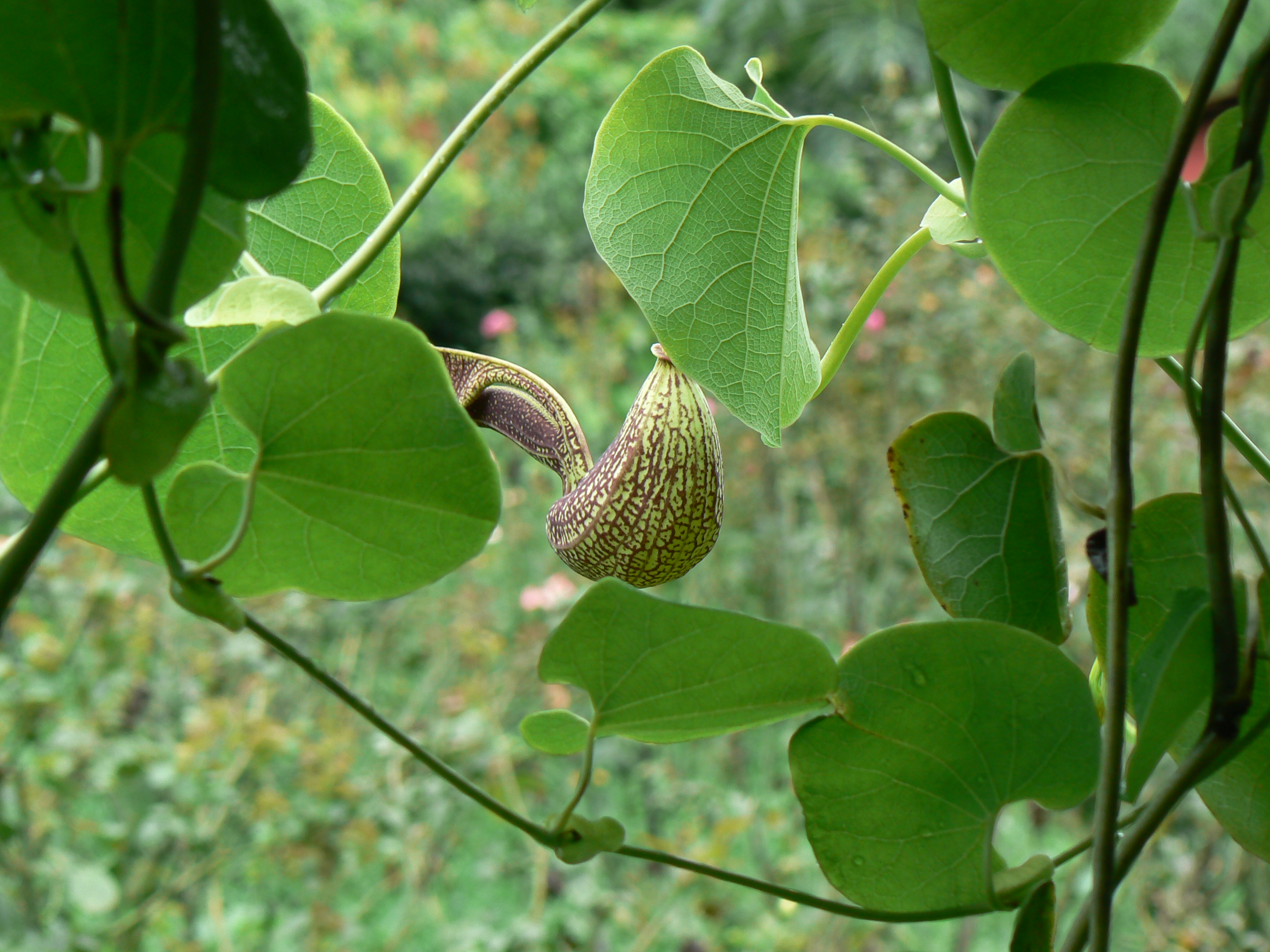 Aristolochiaceae (birthwort family) » Aristolochia ringens a-ris-toh-LOH-kee-uh -- from the Greek aristo (best) and lochia (delivery), referring to the medicinal qualities of the plant in helping childbirth RIN-jens -- meaning, open-mouthed, referring to a hole commonly known as: dutchman's pipe, gaping dutchman's pipe, pipe vine • Marathi: बदक वेल badak vel Origin: Brazil, Mexico, Panama Badak vel (Marathi: बदक वेल) -- badak means duck; here referring to the flower's shape resembling duck; vel meaning vine. Distinctive yet unusual, this great vine produces pipe-like flowers netted purple and brown it's leaves are light green and heart shaped. A spectacular show when in bloom! Does tend to have a very strange odor from the flowers. Papery capsule containing many seeds. Photographed near Karnala, Maharashtra.